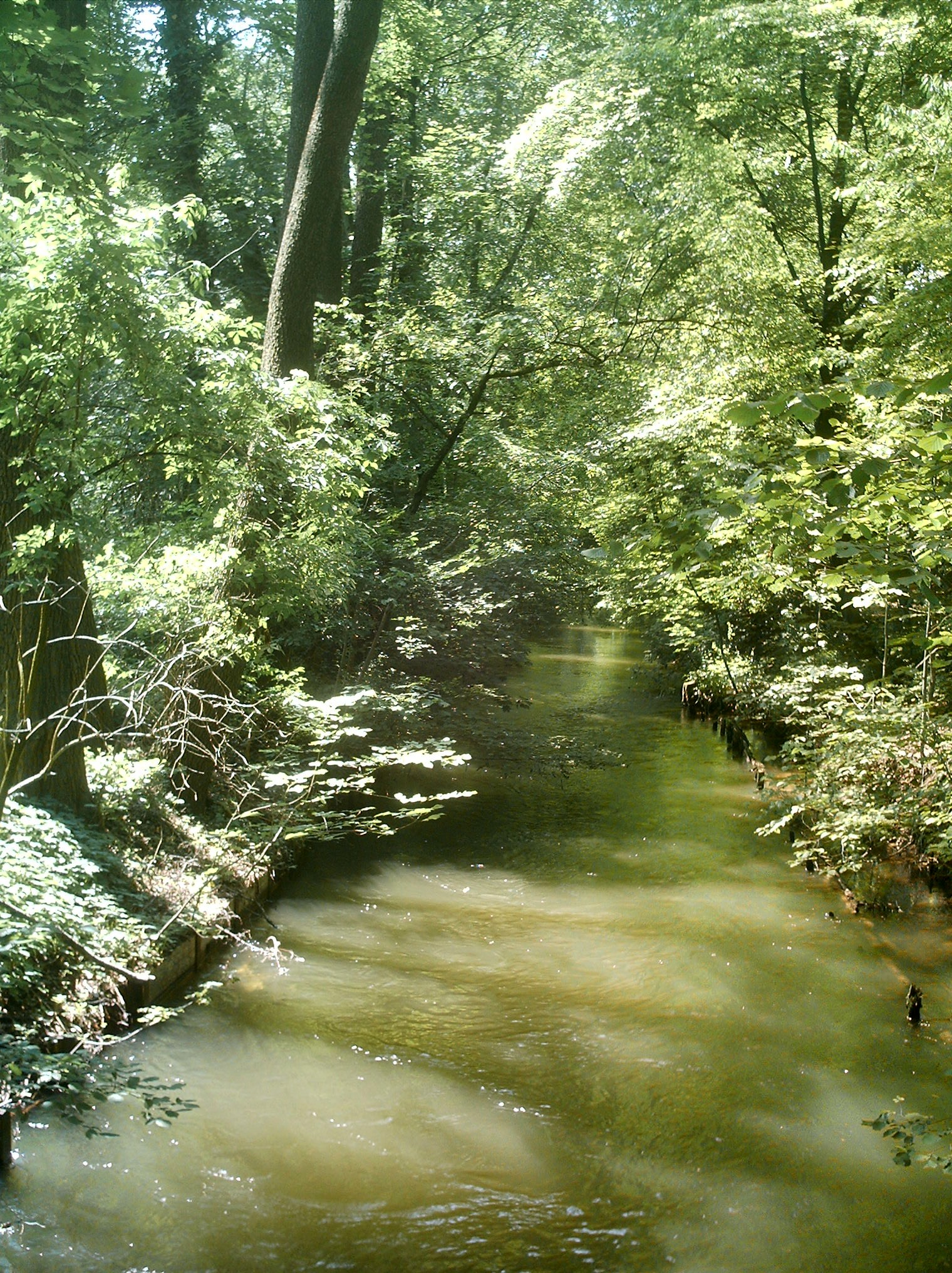 River Würm in Pasing (Munich)